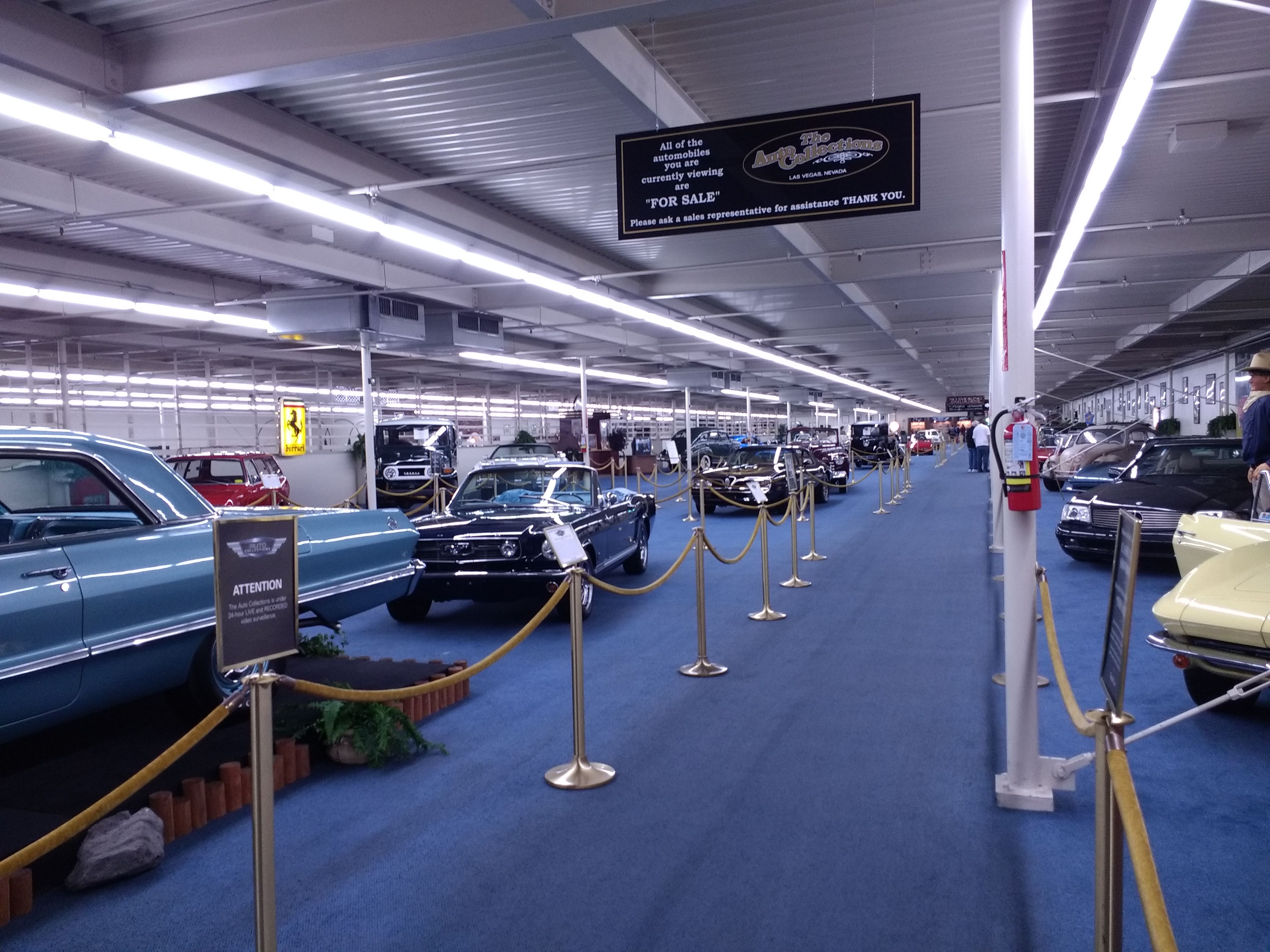 The Auto Collections, a classic car showroom at the Linq on the Las Vegas strip.